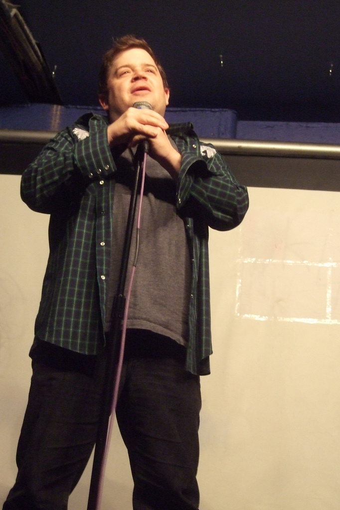 Patton Oswalt @ Invite Them Up, Rififi - July 10, 2007